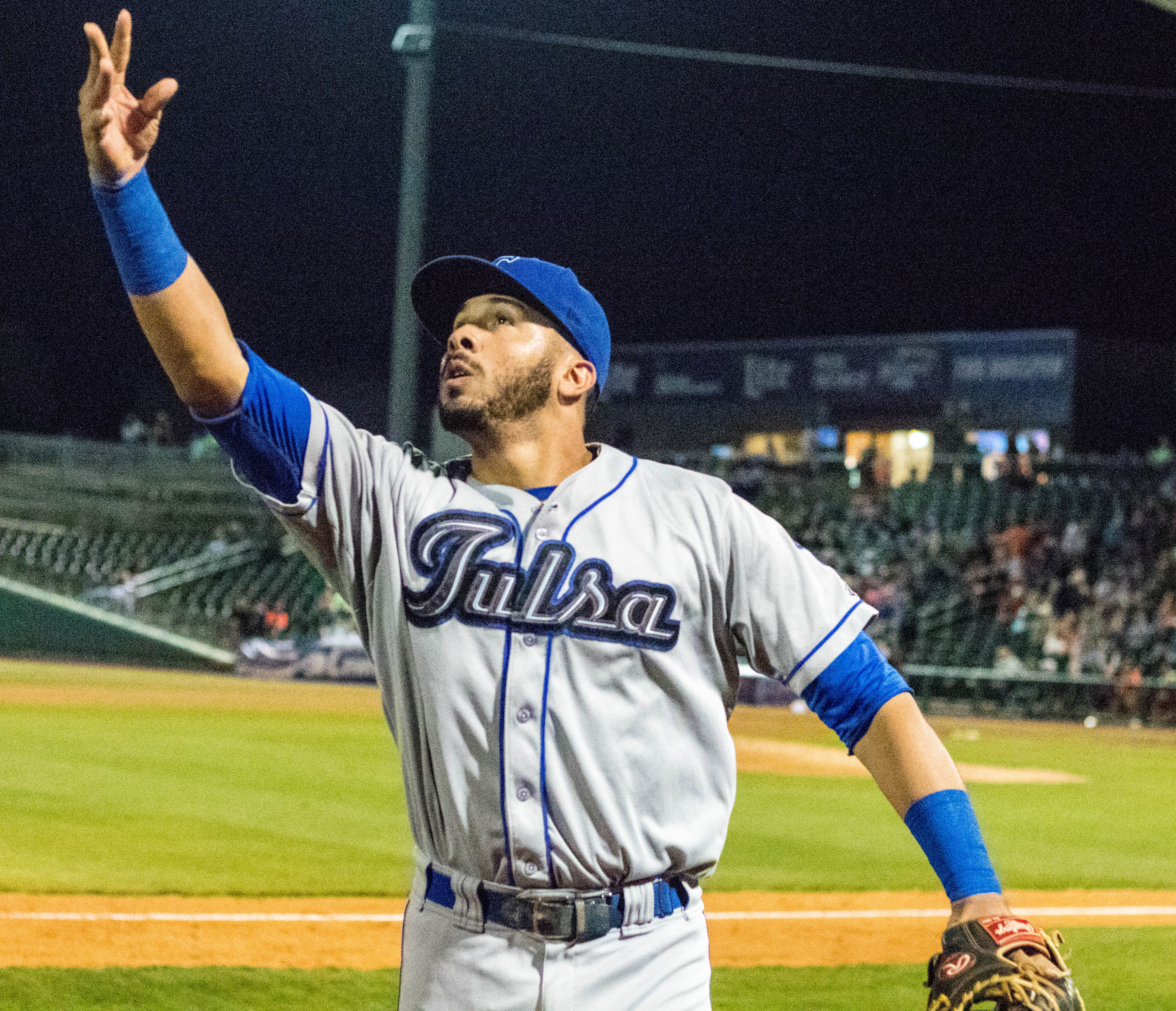 Edwin Rios with the Tulsa Drillers